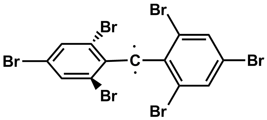 Bis(2,4,6-tribromophenyl)carbene in triplet state